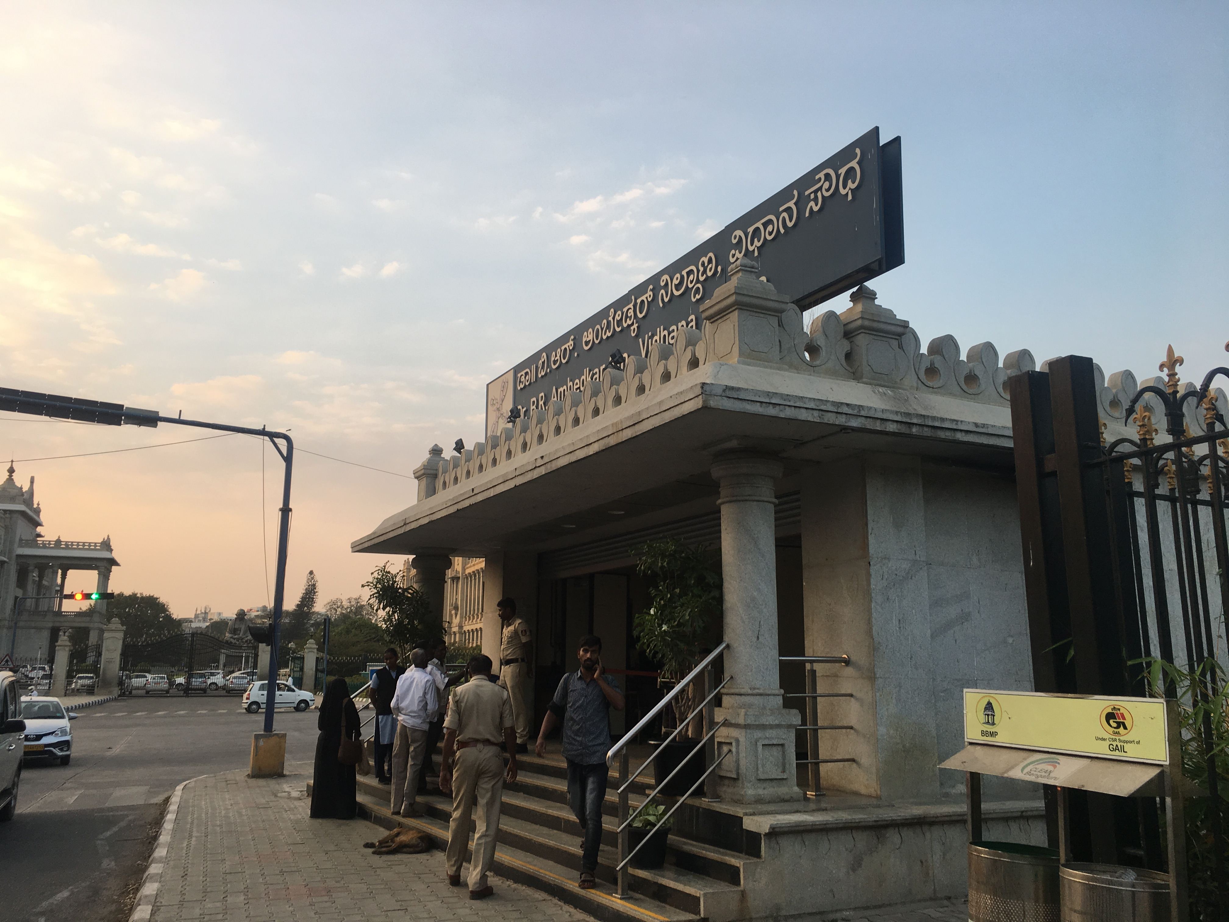 Vidhana Souda metro station